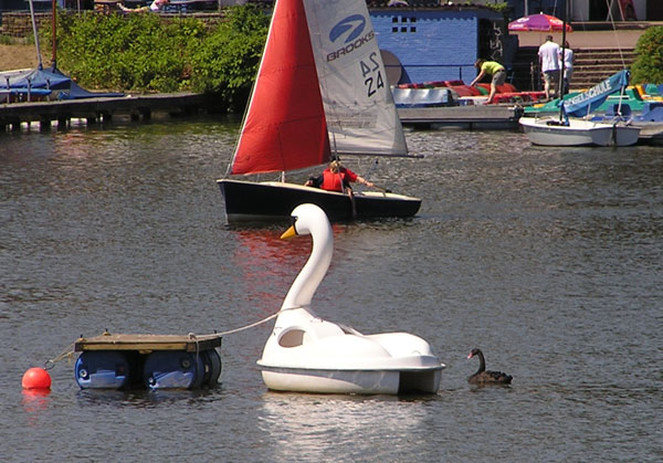 Black Swan who fell in love with a Pedalo at Aasee, Münster, Germany in Summer of 2006.